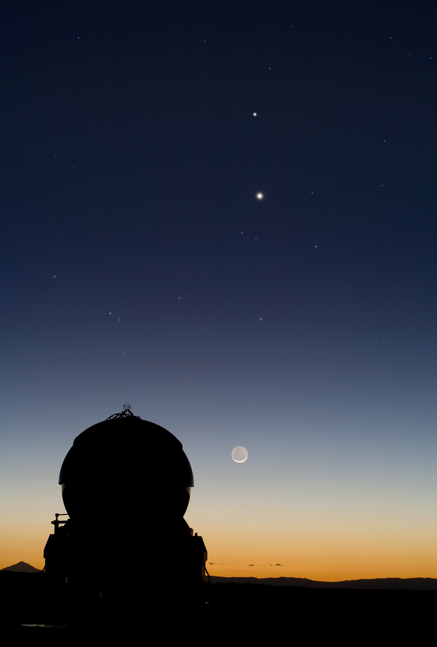 A conjunction of Mercury and Venus, aligned above the Moon, as seen from the Paranal Observatory.